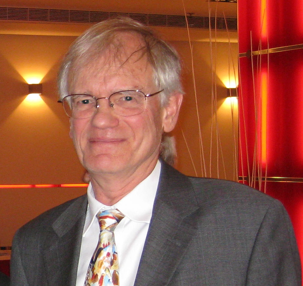 Professor Richard Darton at the CHISA congress in Prague, 2010